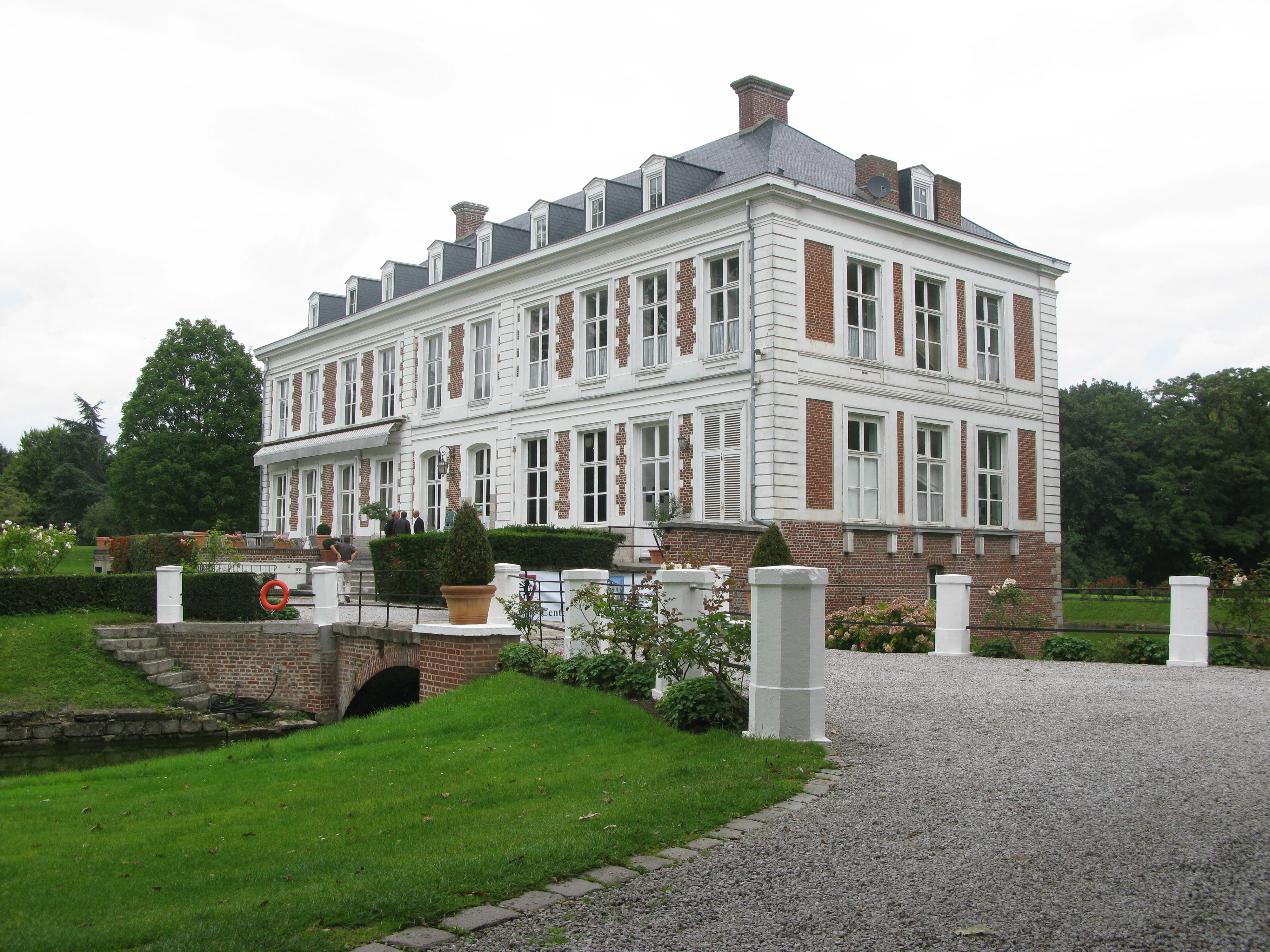 Sart castle, eastern and northern facade, Villeneuve d'Ascq.